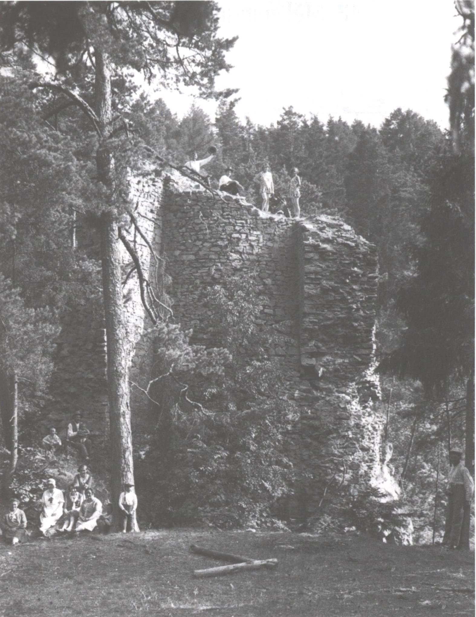 Holoubek castle at early 20th century near Plešice, Třebenice, Třebíč District.